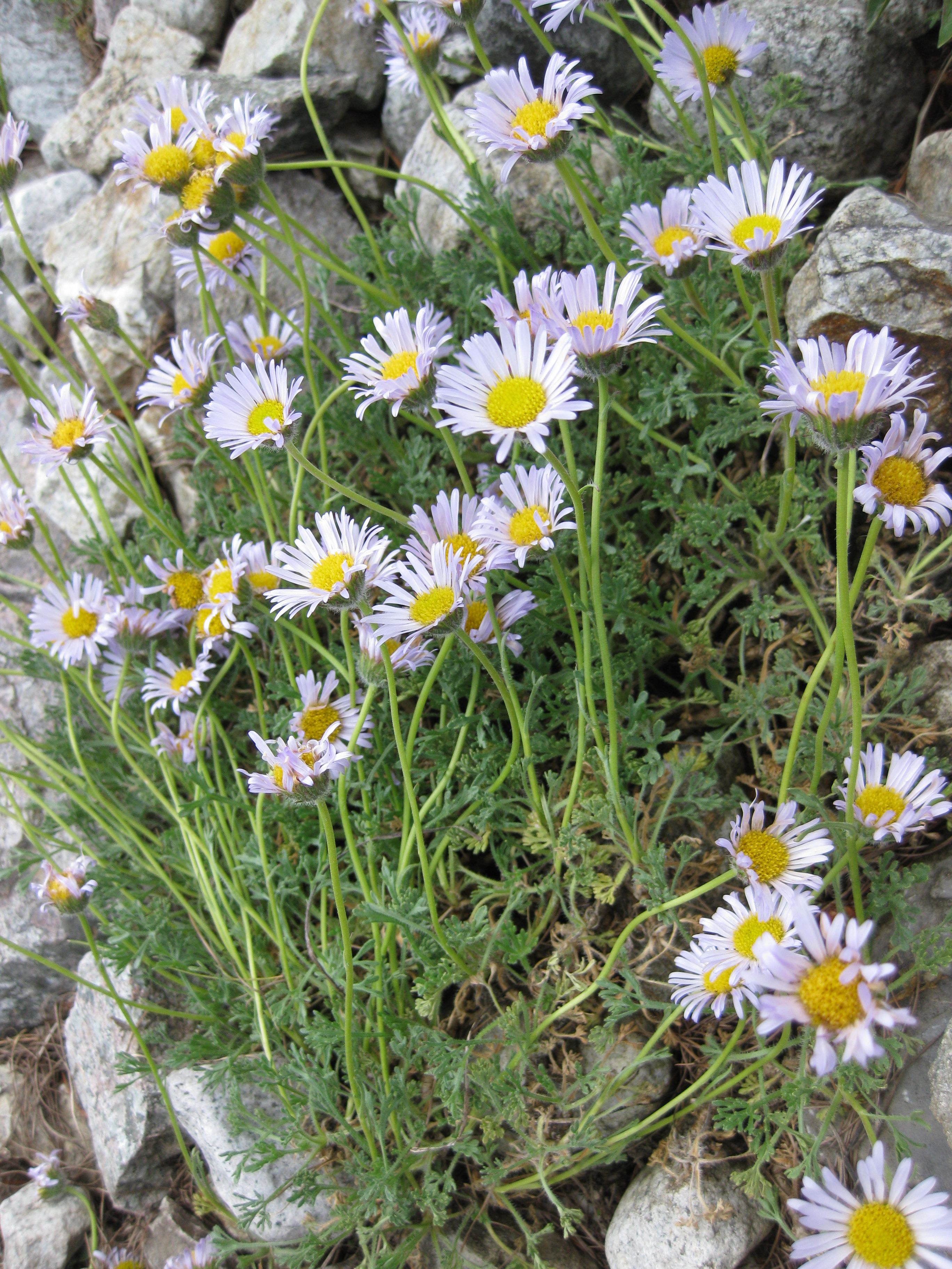 Erigeron compositus var. glabratus in the Jardin Botanique Alpin du Lautaret